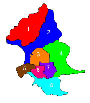 Taipei 2020 legislative seats